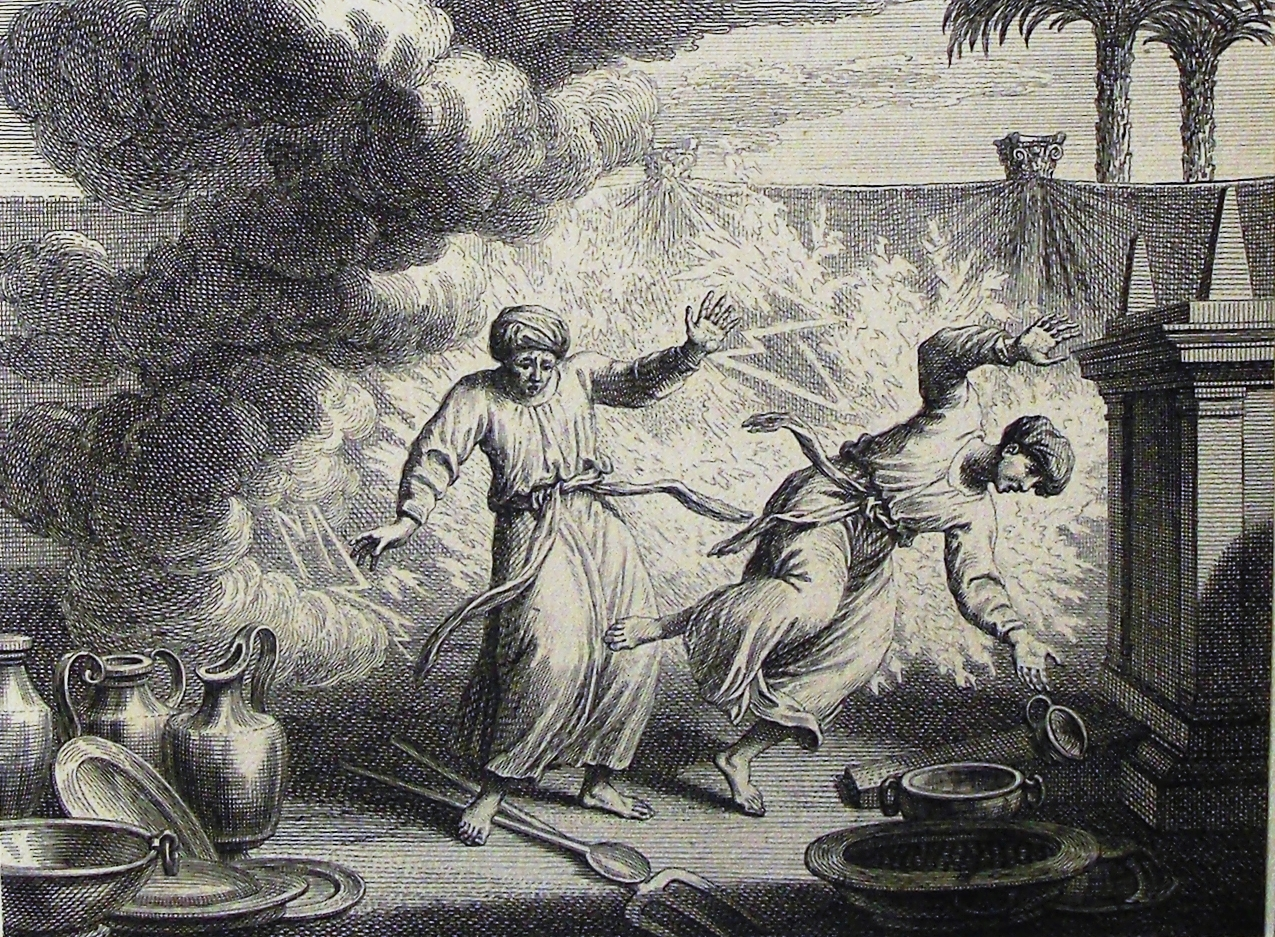 A print from the Phillip Medhurst Collection of Bible illustrations in the possession of Revd. Philip De Vere at St. George’s Court, Kidderminster, England.